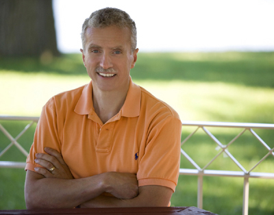 André M. Bernier (born May 22, 1959 in New Bedford, Massachusetts) is an American meteorologist, serving as the Cleveland-based WJW-TV's weekday evening meteorologist, along with Dick Goddard. He won two Emmy awards for his weathercasts and has been at the station since February 1988, when Cleveland's very first, full-length local morning newscast began. After nearly twenty years on weekday mornings, Bernier moved to the weekday prime-time on May 28, 2007.